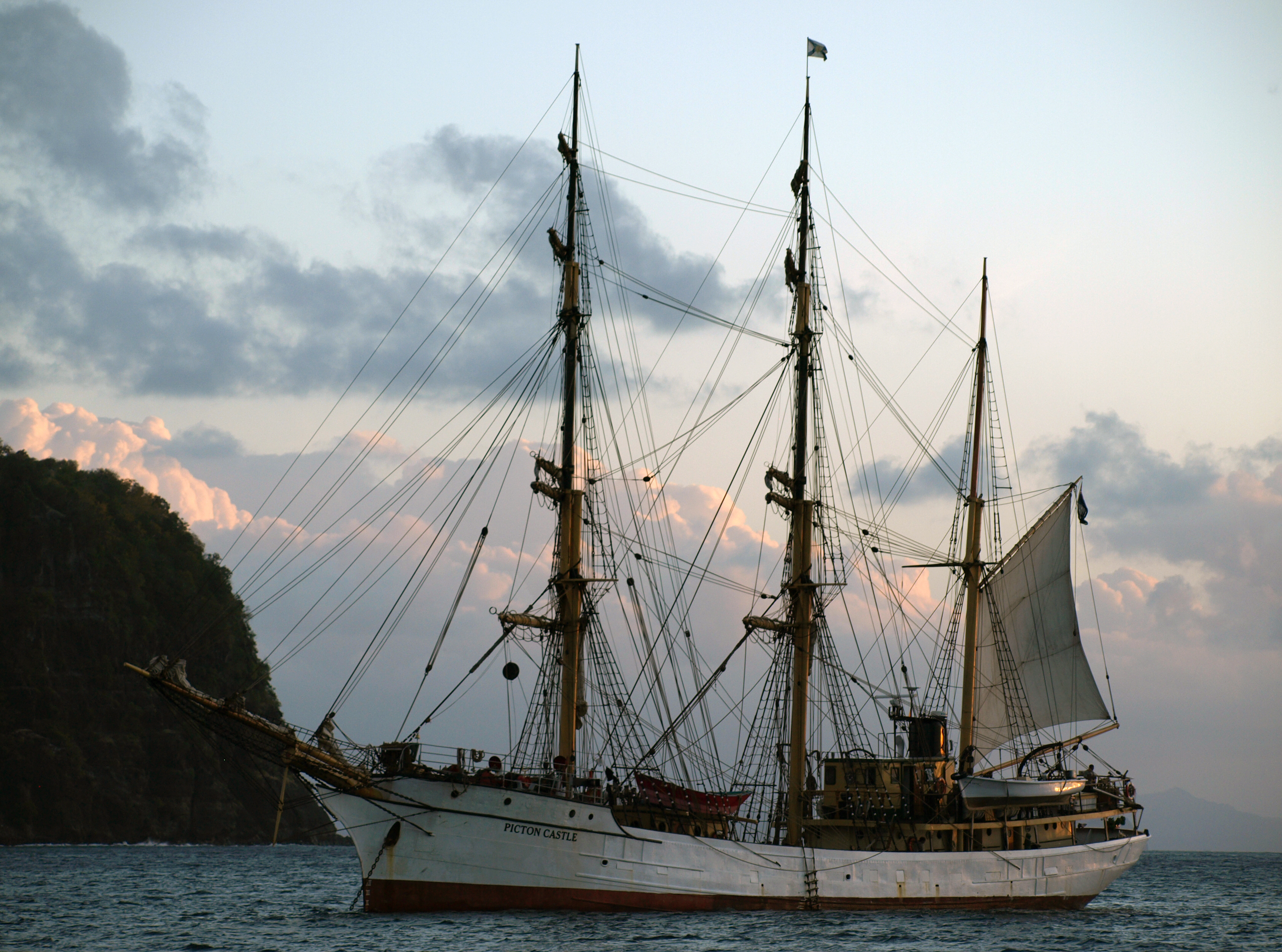 A picture of the Canadian training ship/barque Picton Castle, at anchor off of Carriacou, The Grenadines.